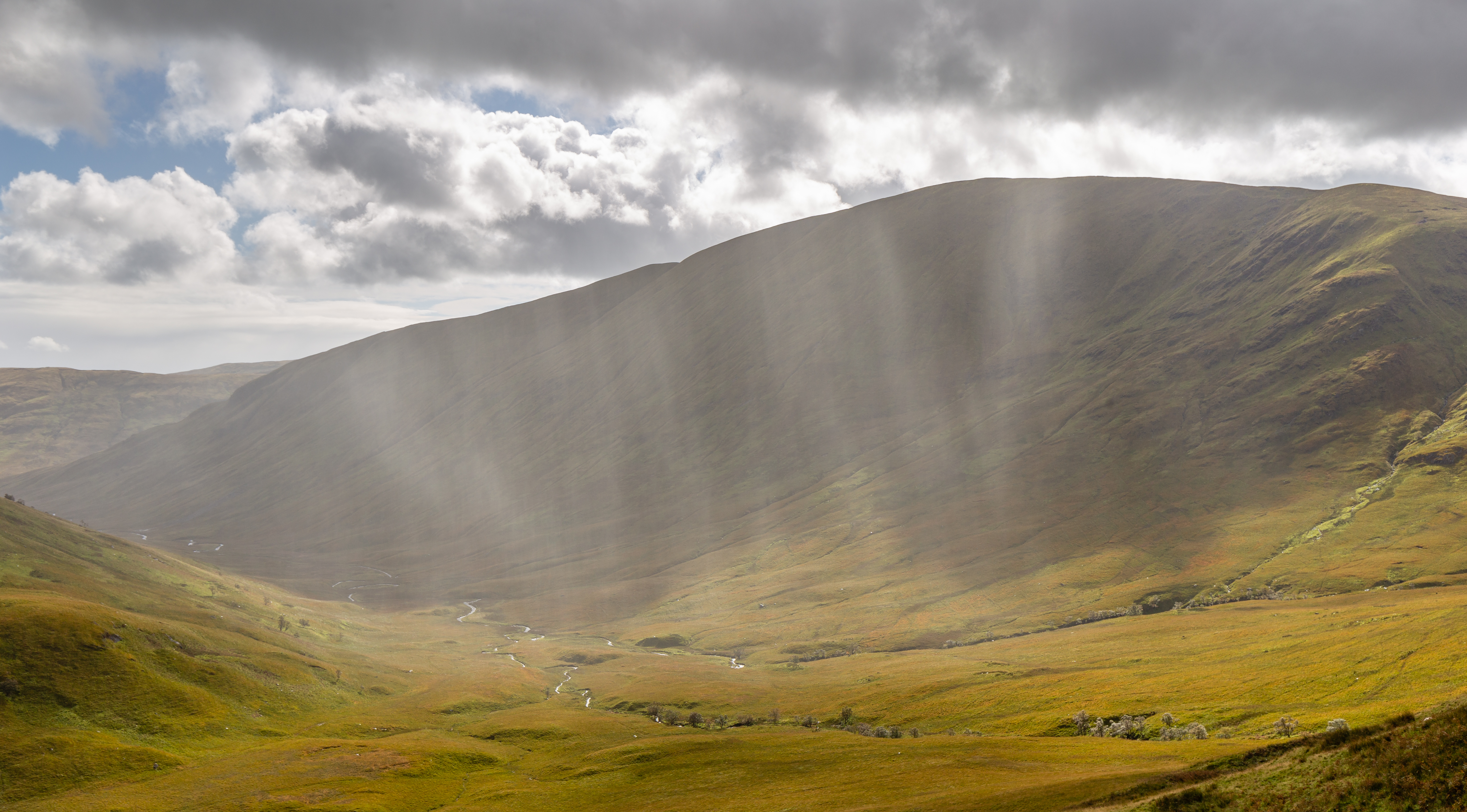 Rain over Beinn Eich, Luss Hills, Scotland